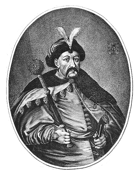 Bohdan Khmelnytsky, portrait by Hondius